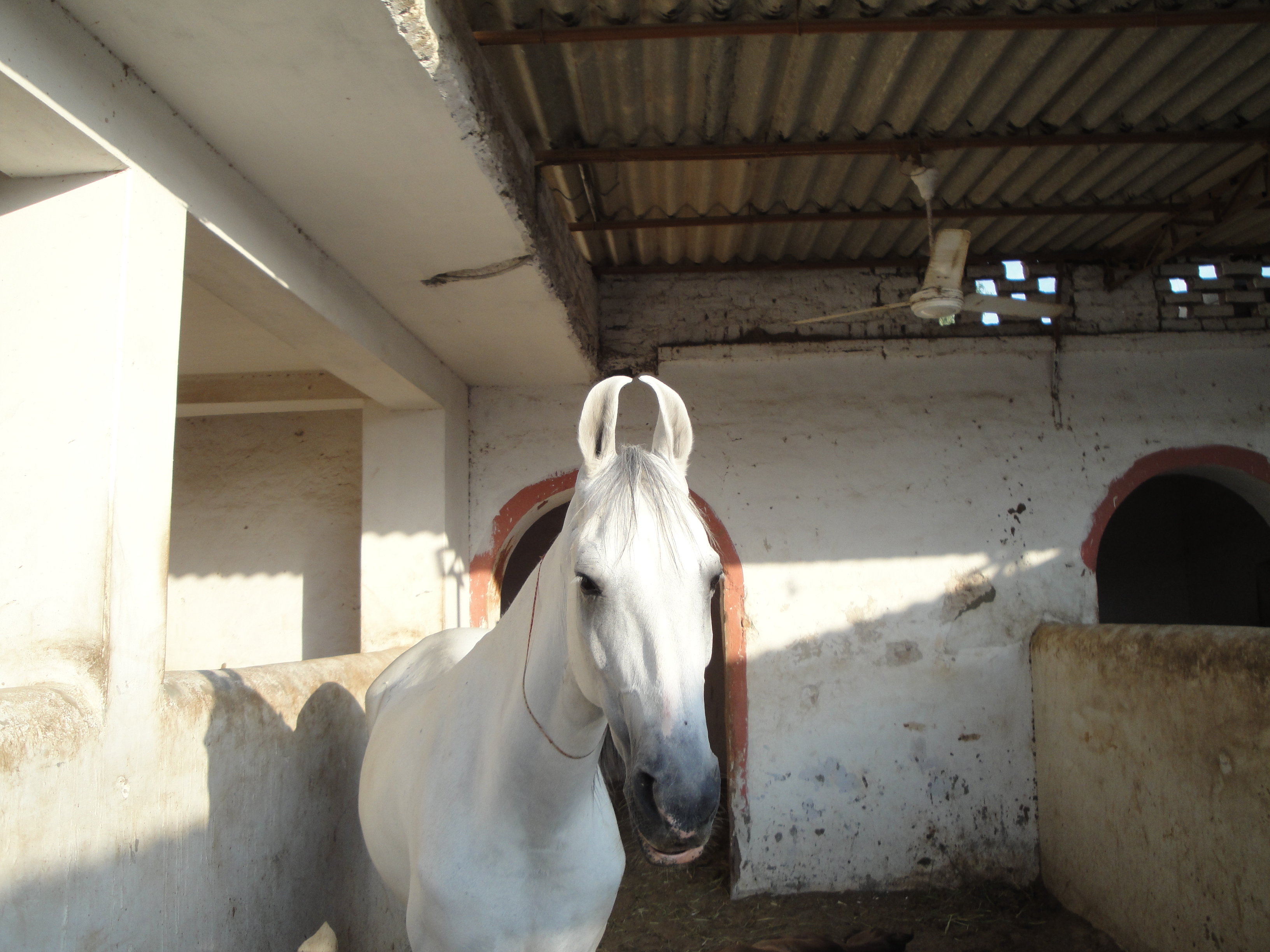 Rajasthan Horses, Village east of Jodhpur